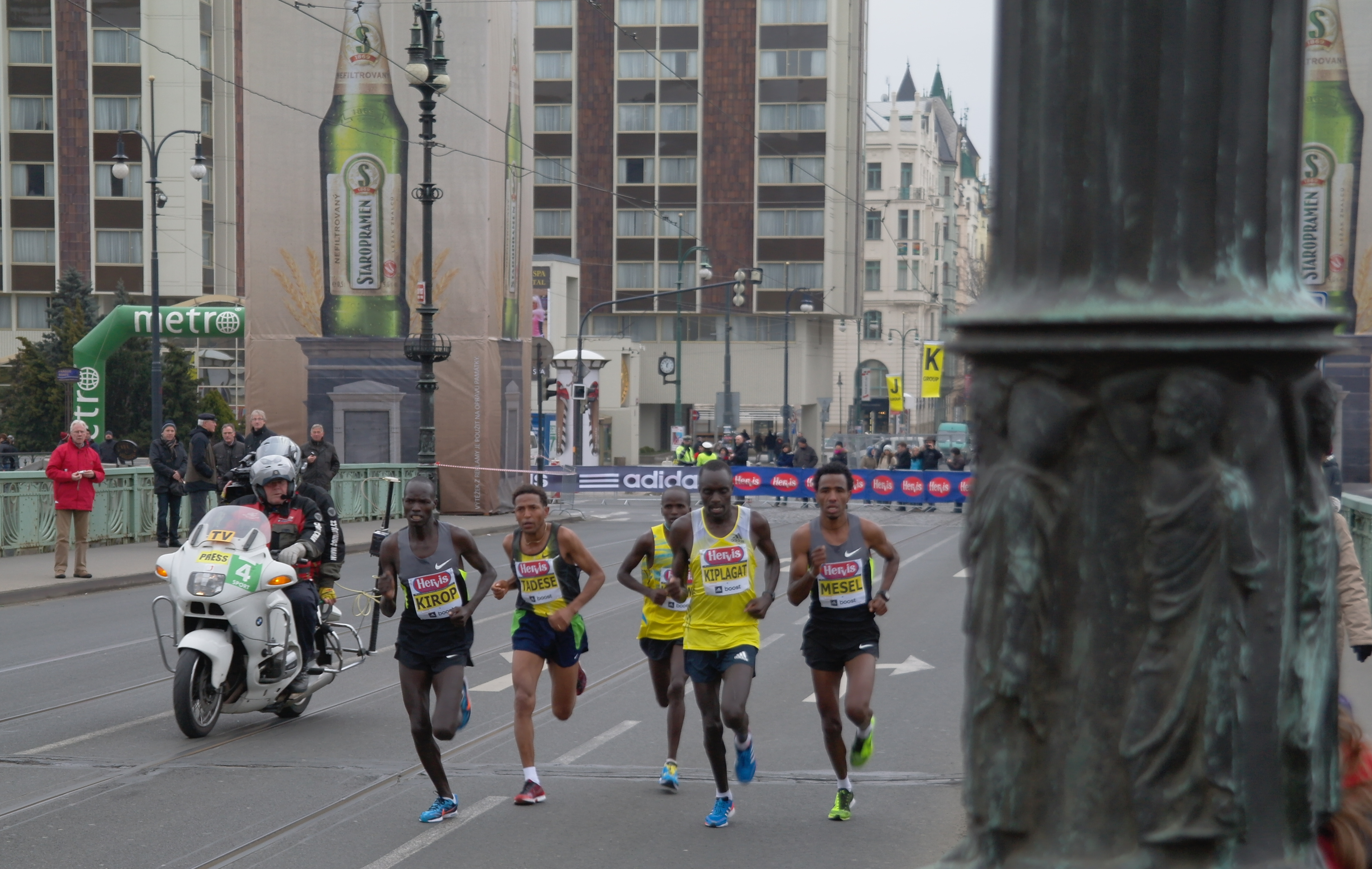 Prague Half Marathon 2013 - Left to right: Pius Maiyo Kirop, Zersenay Tadese, John Korir Kipsang, Henry Kiplagat and Amanuel Mesel crossing the Čechův most a few minutes before finishing the race